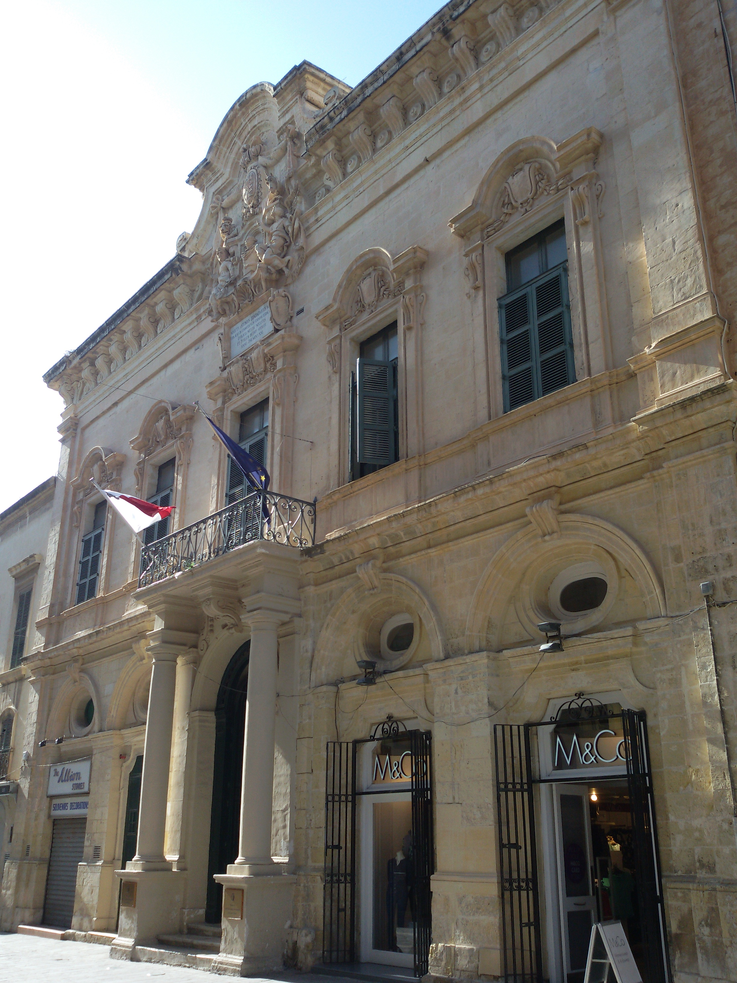 Palazzo della Città, Valletta